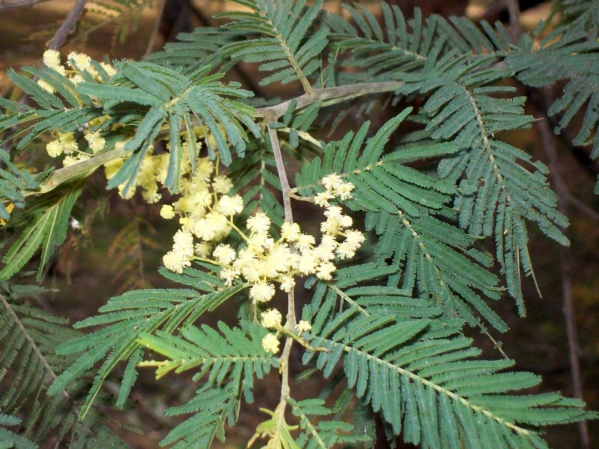 Acacia trachyphloia, labeled at Eurobodalla Botanic Gardens, Batemans Bay, Australia